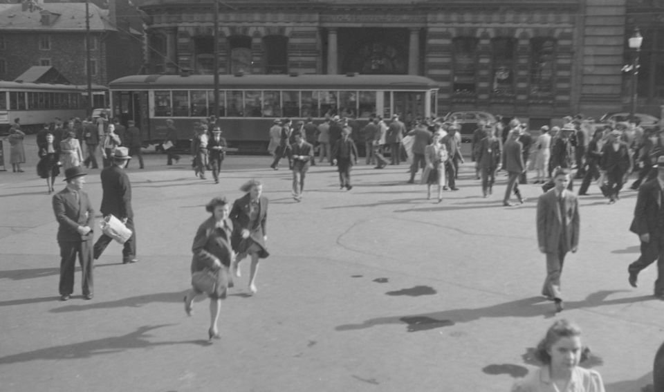 We see pedestrians and passengers boarding or exiting trams at rush hour on the Place d'Armes in Old Montreal.